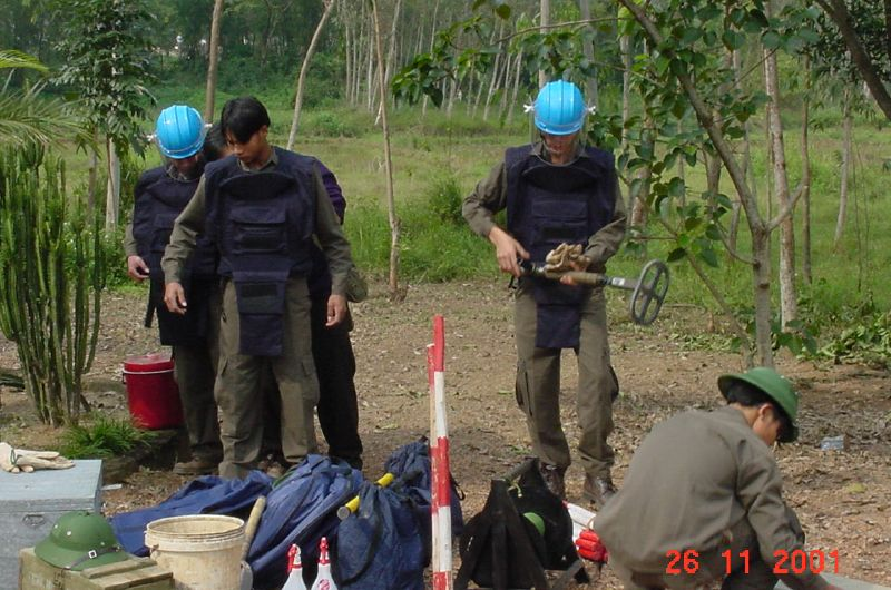 Vietnam - clearing an area of landmines